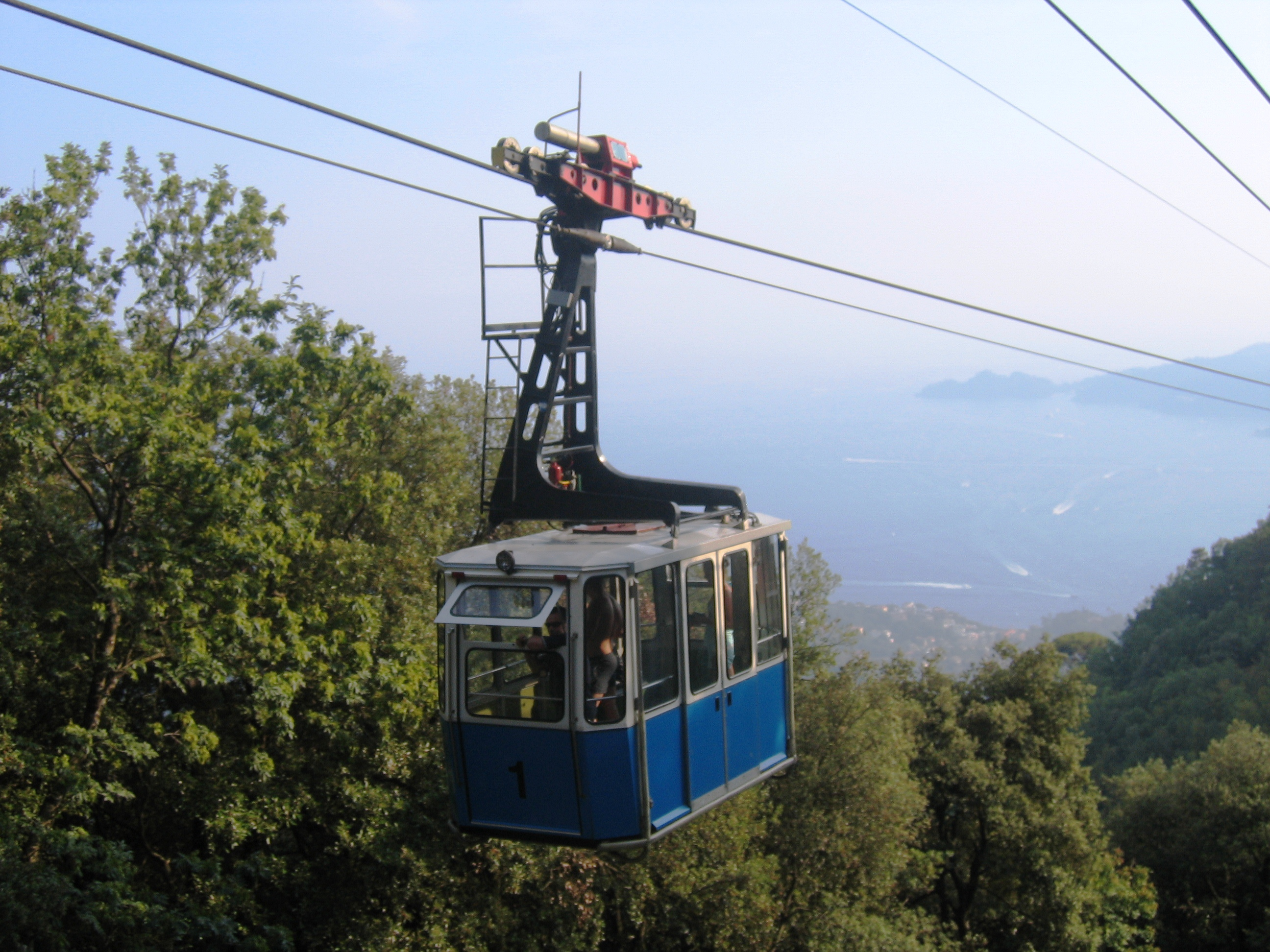 Rapallo cableway